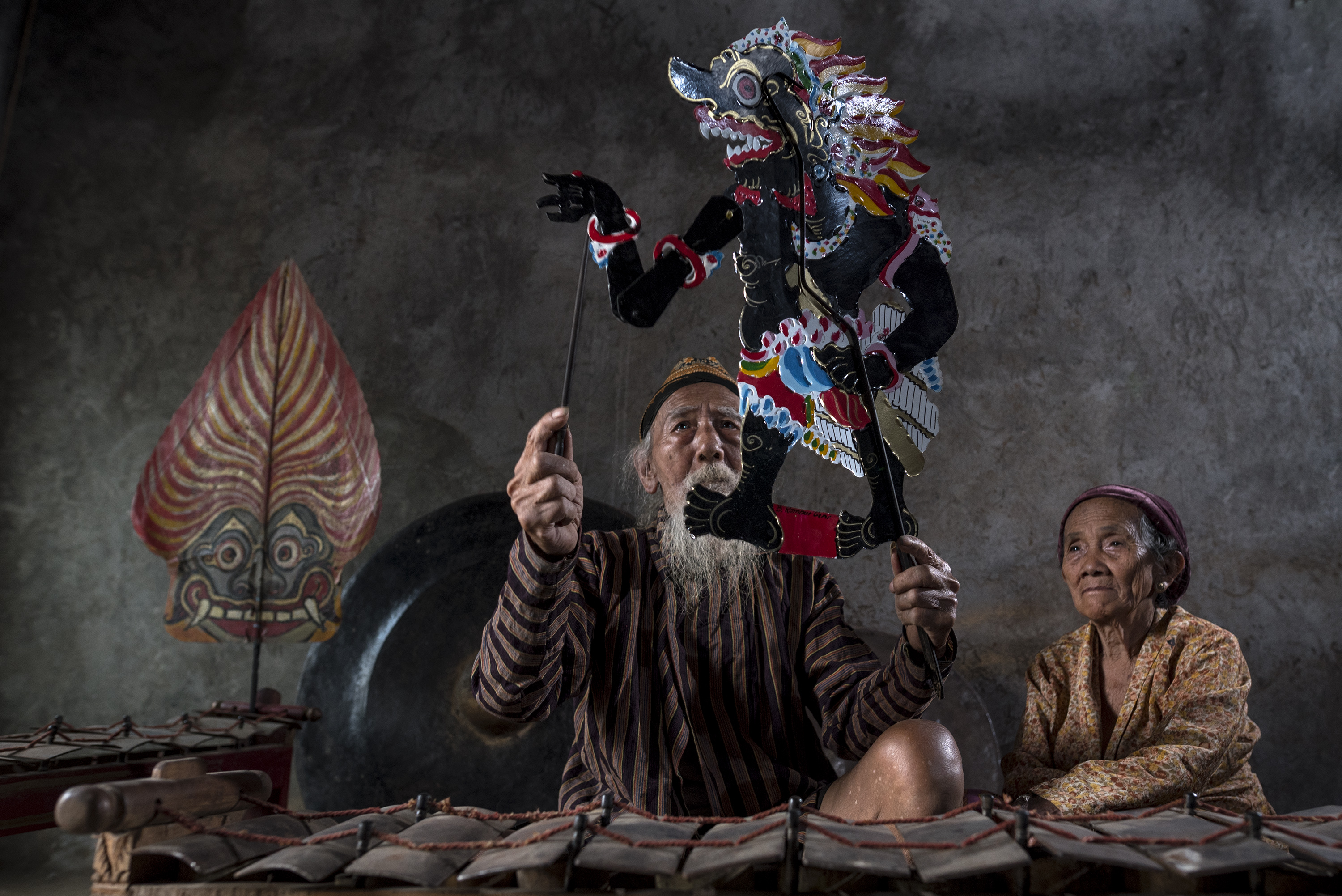 Wayang Kulit, also known as Wajang Koelit, is a form of puppet theatre art found in Java, Indonesia and other parts of Southeast Asia